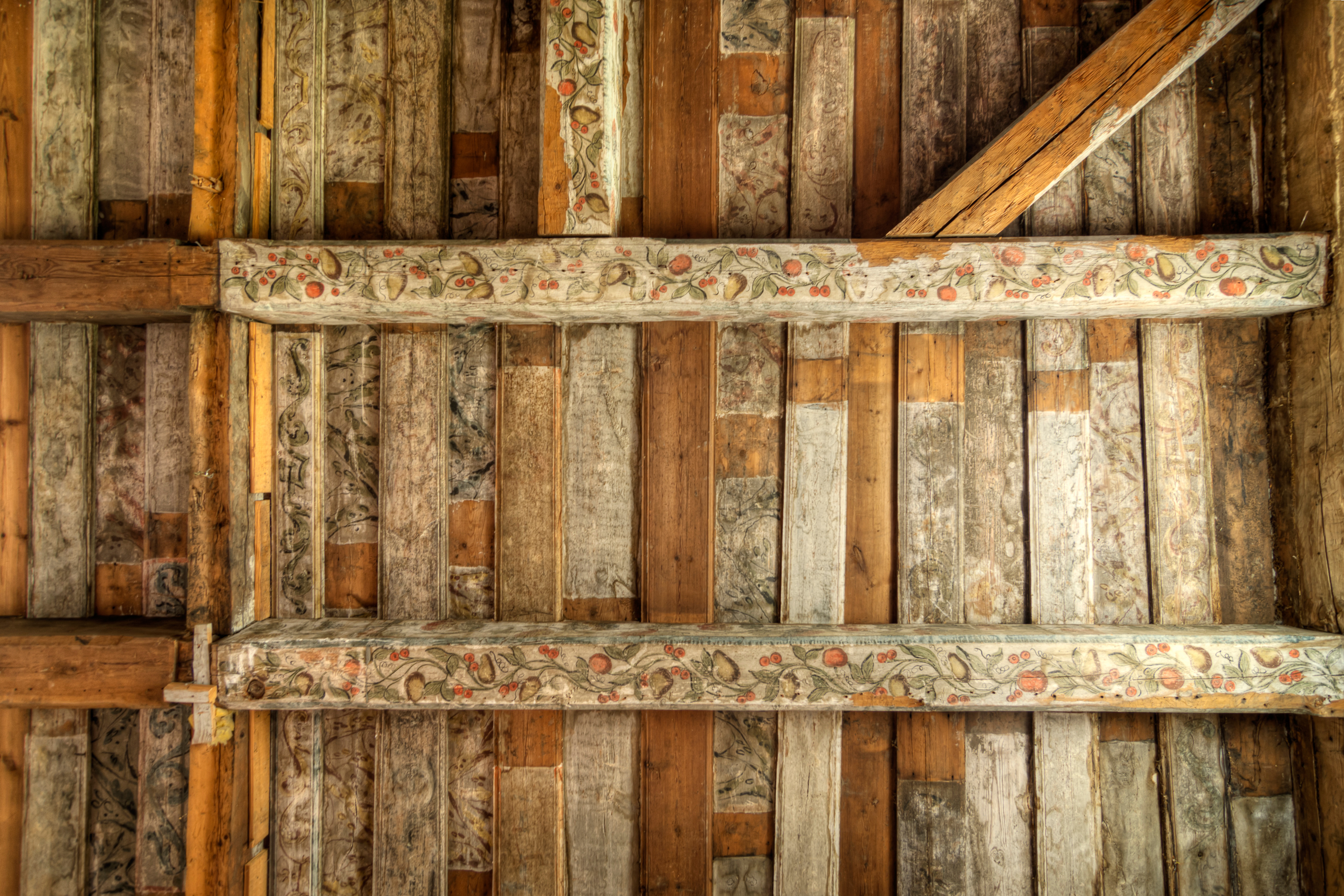 Ceiling with ornamented beams in Esna Manor